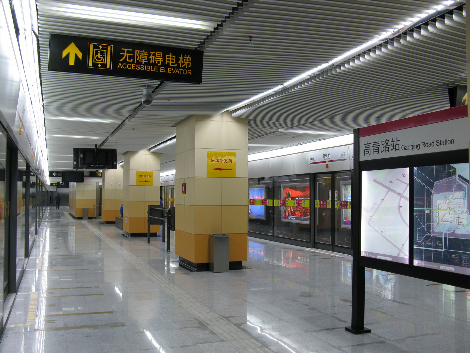 Line 6 Platform of Gaoqing Road Station